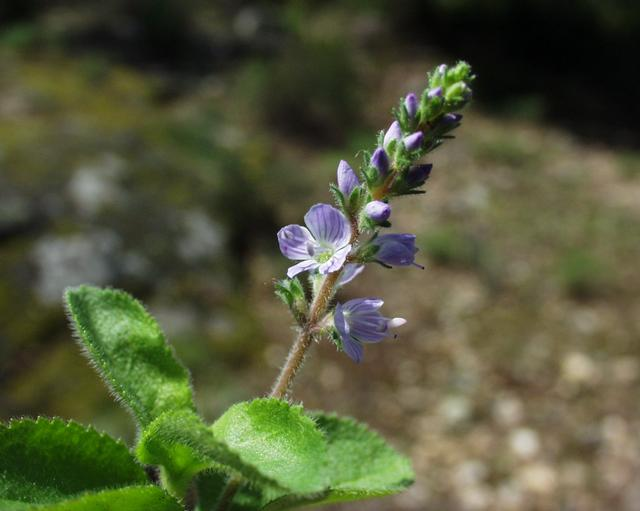 (en) Veronica officinalis, a photography originating of the internet site The accord of the autor, H. Brisse, is here. (fr) Veronica officinalis, une photographie issue du site internet L'accord de l'auteur, H. Brisse, se situe ici.